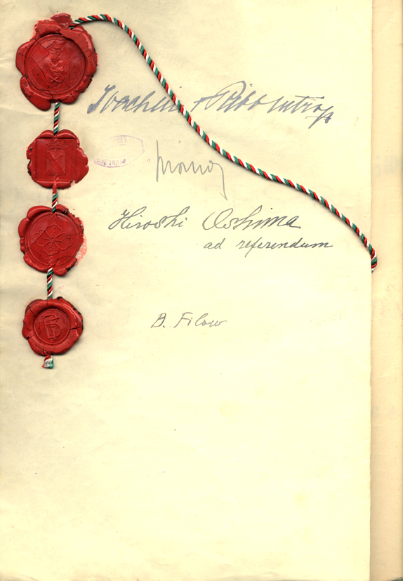 Official Protocol of Bulgaria's accession into the Axis Tripartite Pact. Vienna, 1. March 1941